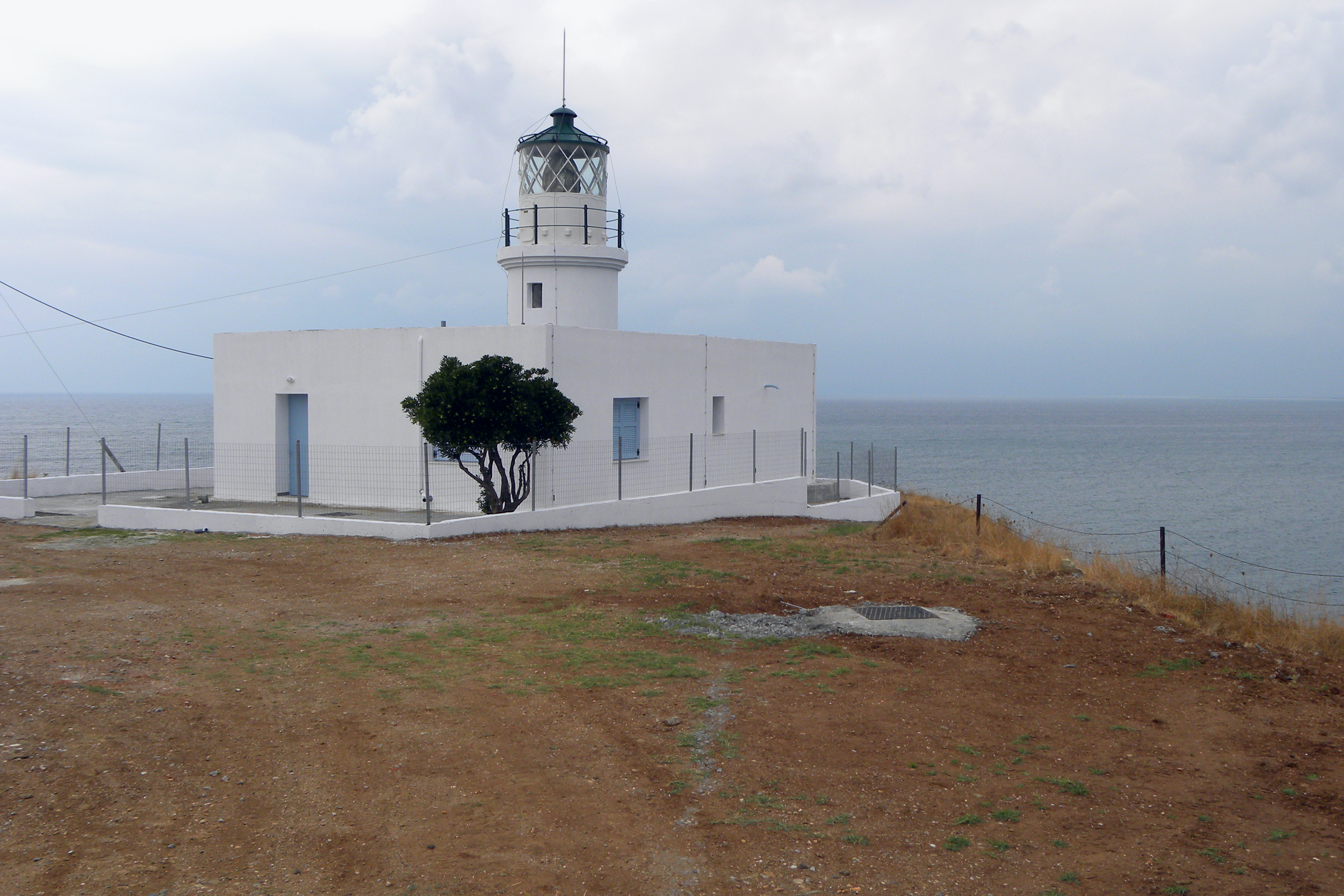 Angelochori lighthouse, opposite Thessaloniki, Greece